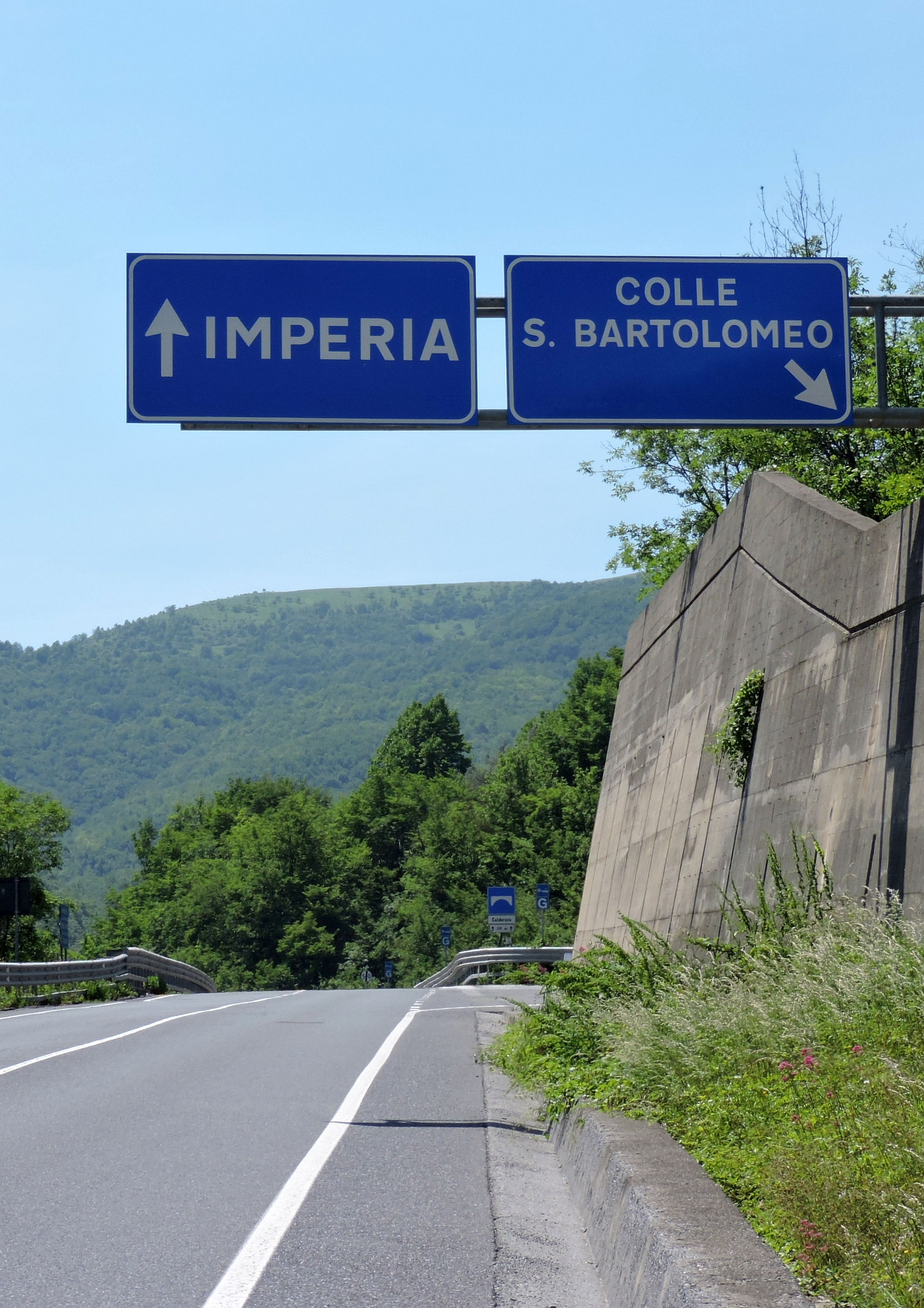 Colle San Bartolomeo (Ligurian Alps, Italy): diversion fron former National Road nr.28